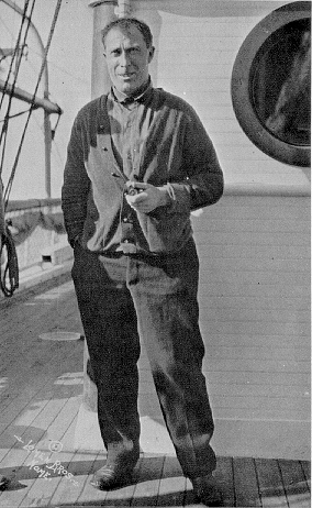 Captain Robert A. Bartlett. This photograph was taken on board the U.S. Coast Guard Cutter Bear after Captain Bartlett had completed his march of 700 miles in 37 days from the camp on Wrangel Island.